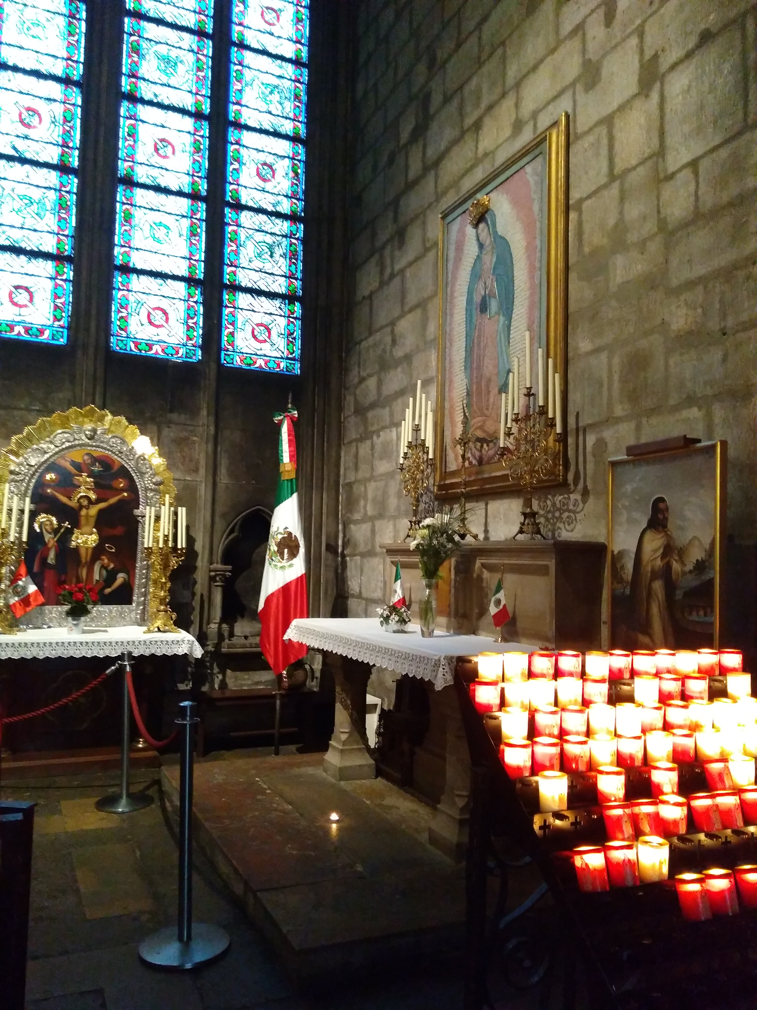 Chapel of the Virgin of Guadalupe in Notre Dame, one of the most visited. Paris, France.